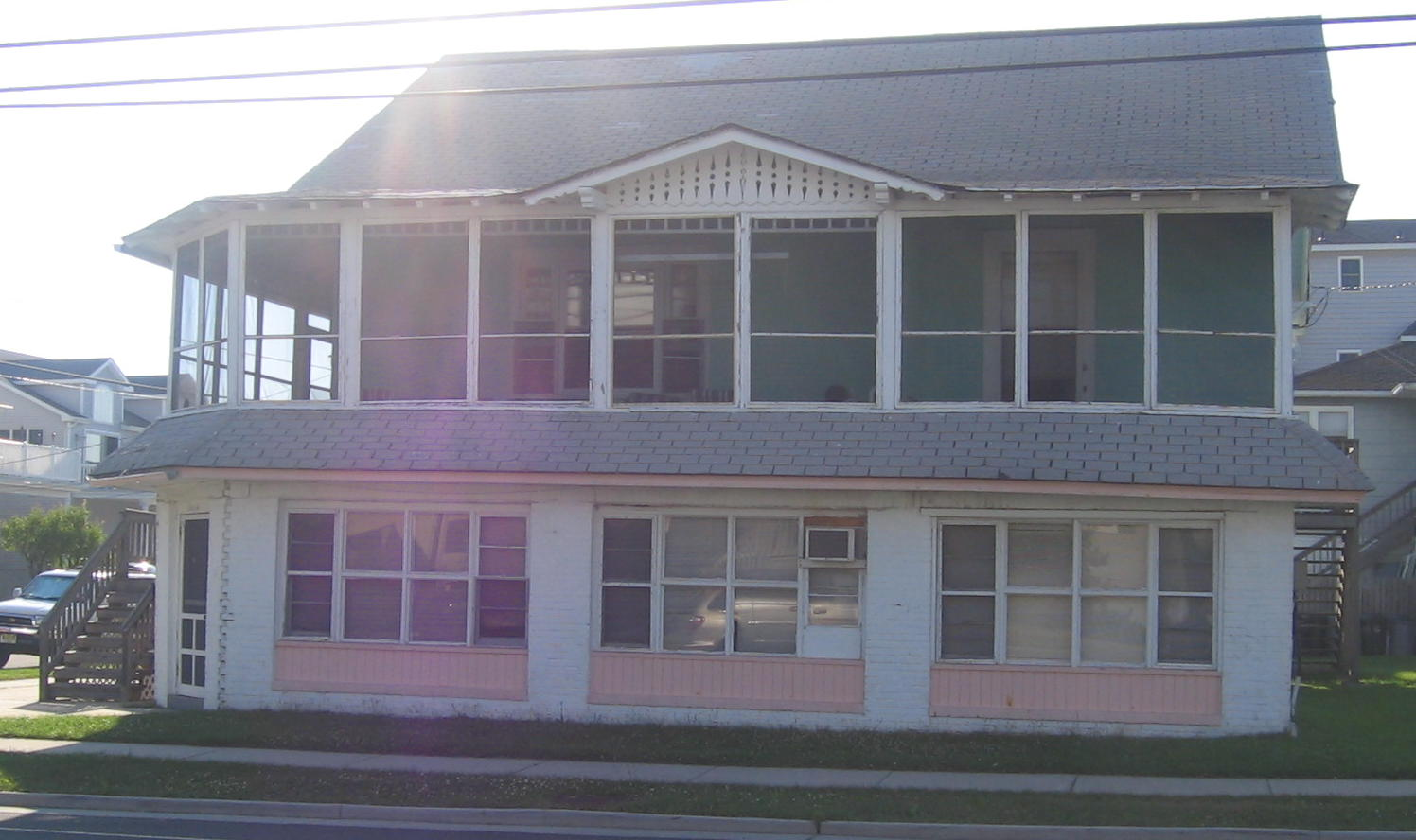 The former Ludlam's Beach Light as a private residence on the 3700 block of Landis Ave. in Sea Isle City in 2005.